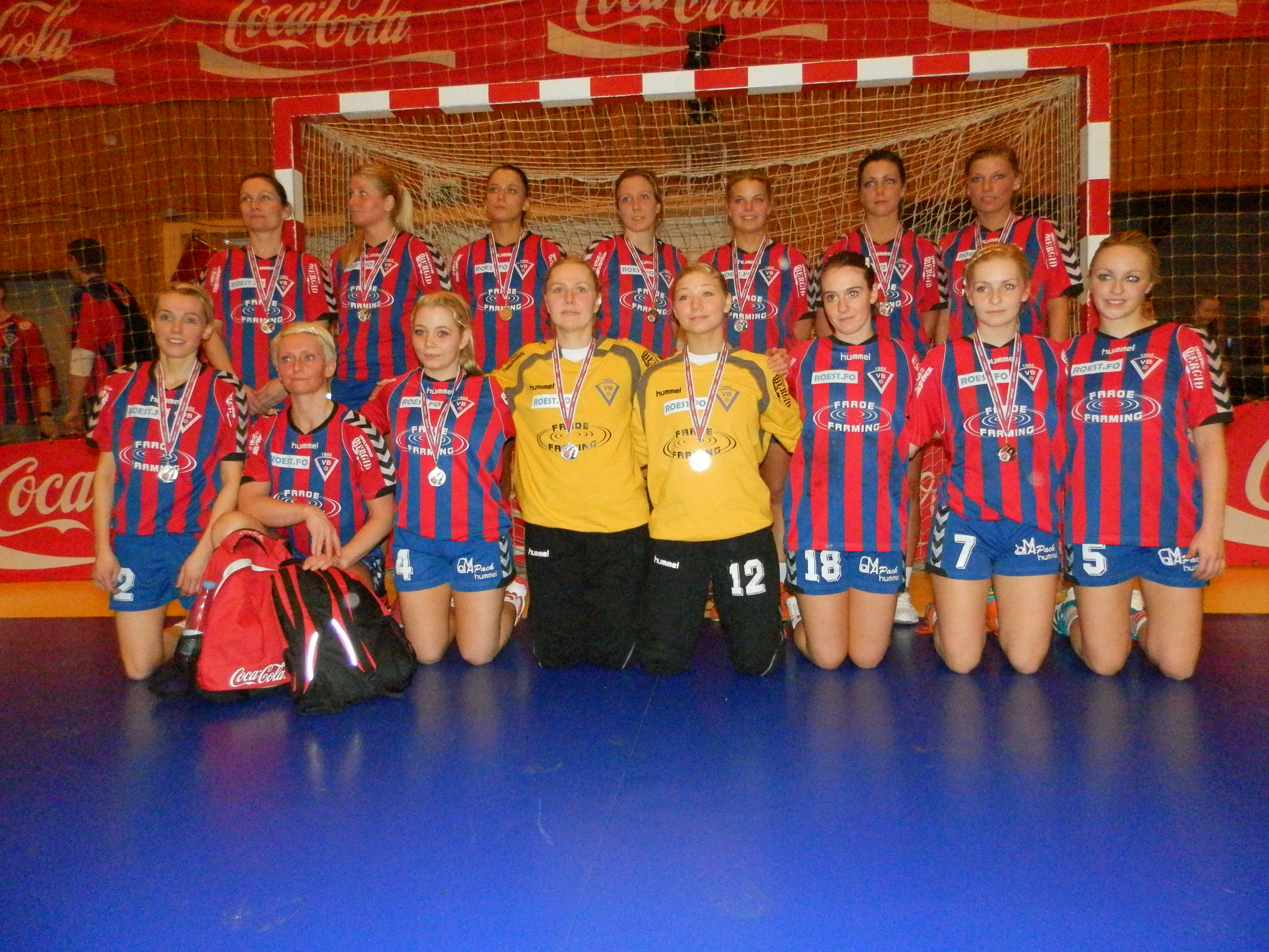 The women's handball final in the Faroe Islands Cup 2013 was played on 9 February 2013 in the sports hall on Nabb in Tórshavn, Faroe Islands. The final was between VB from Vágur and Neistin from Tórshavn. Neistin won the final 27-24. This is a photo of VB Vágur's team, taken just after the match. Føroyskt: Steypafinalan 2013 hjá kvinnum í hondbólti millum VB og Neistan varð leikt í Høllini á Nabb (á Hálsi) í Havn hin 9. februar 2013. Neistin vann finaluna 27-24. Hetta er ein bólkamynd av VB kvinnunum. Bára Krosslá Mortensen og venjararnir manglar á myndini. Leikararnir eru ovast frá vinstru: Christina Holm, Tamara Seja Radic, Marijana Trbojevis, Laila Midjord Jespersen, Una Nolsøe, Helga Eyðunsdóttir, Birita H. Olsen. Niðast frá vinstru: Rannvá Johannesen, Gurið Krosslá Mortensen, Bjarta Hergeirsdóttir, Guðrun í Lágabø, Beinta Ludvig Gudmundson, Andrea Nielsen, Rúna Midjord Jacobsen og Una Egilsdóttir.